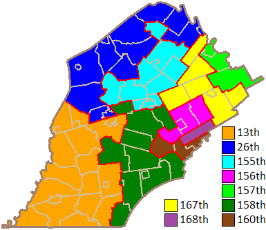 The Pennsylvania House of Representatives in Chester County